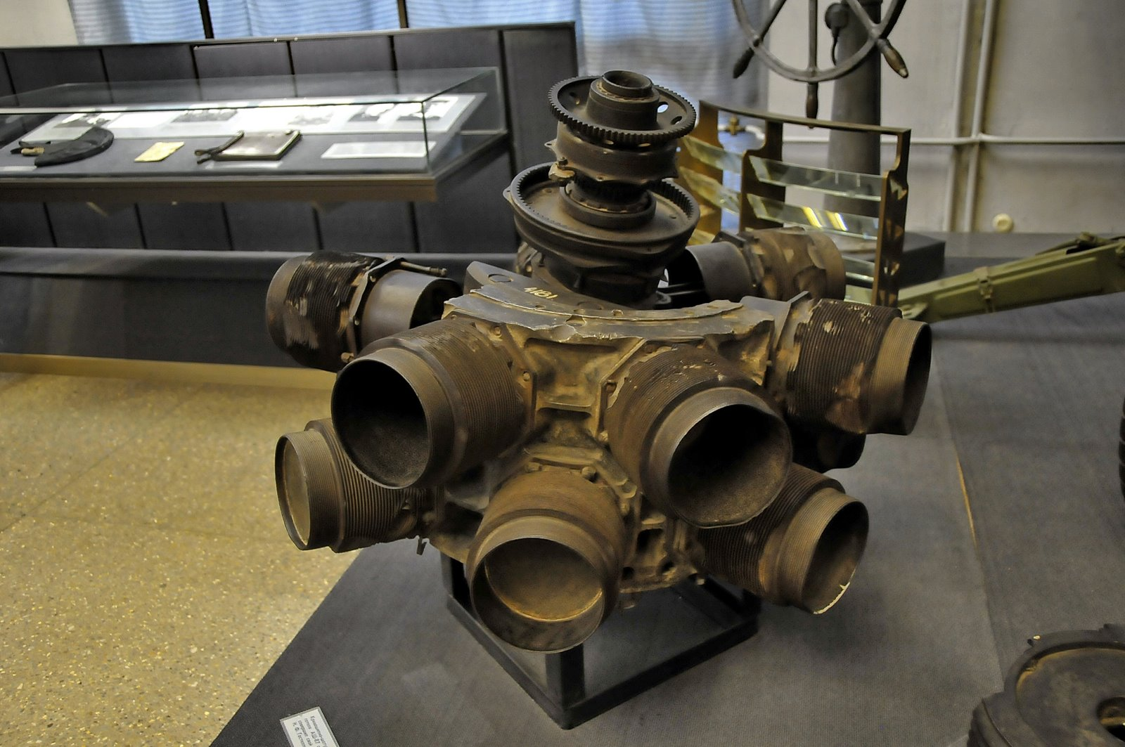 Soviet radial engine (Shvetsov ASh-81) from the Second World War in the Central Armed Forces Museum (Moscow).